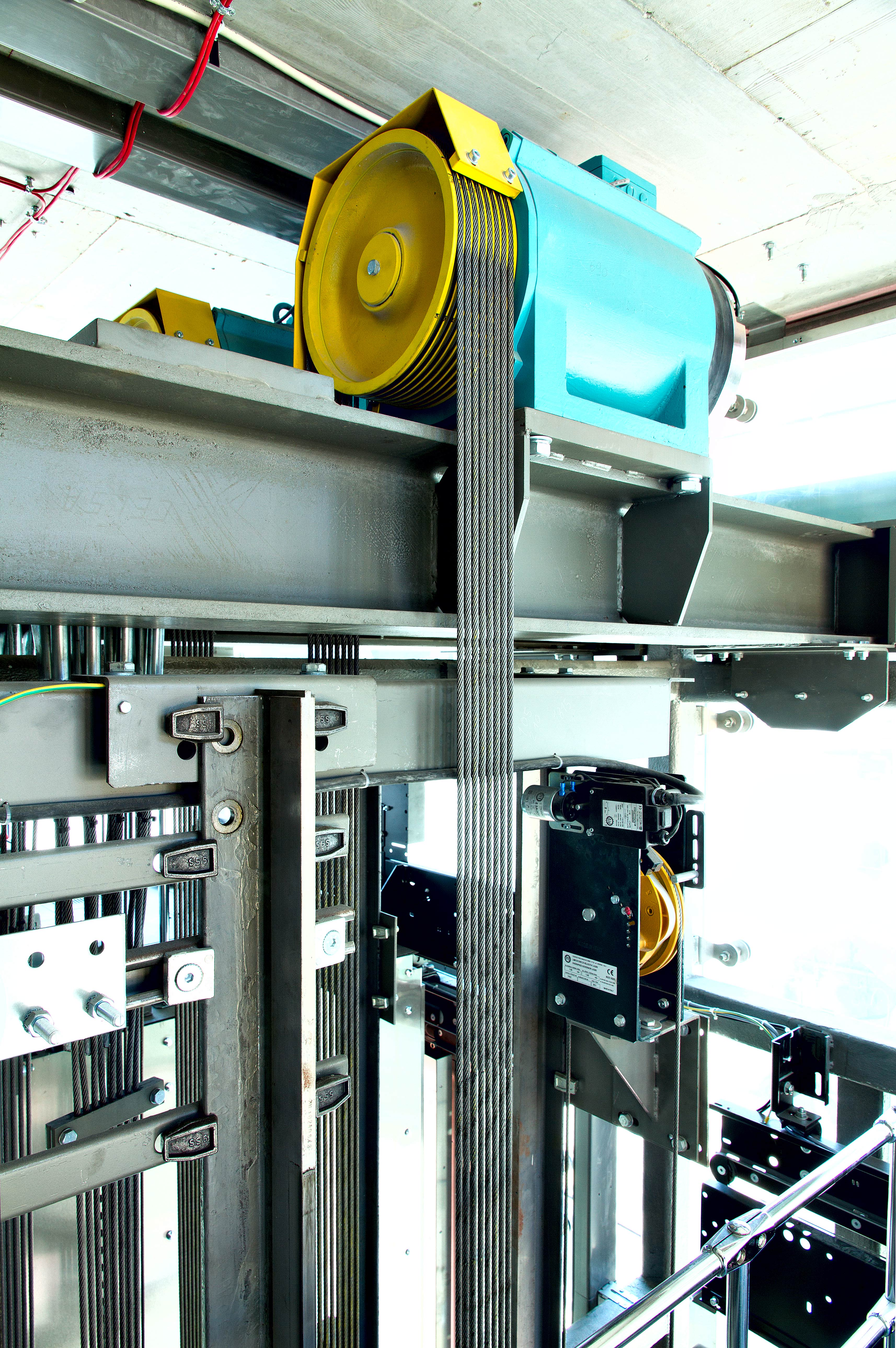 Wittur machine roomless lift package MRL W line: internal top view with gearless drive, ropes and overspeed governor